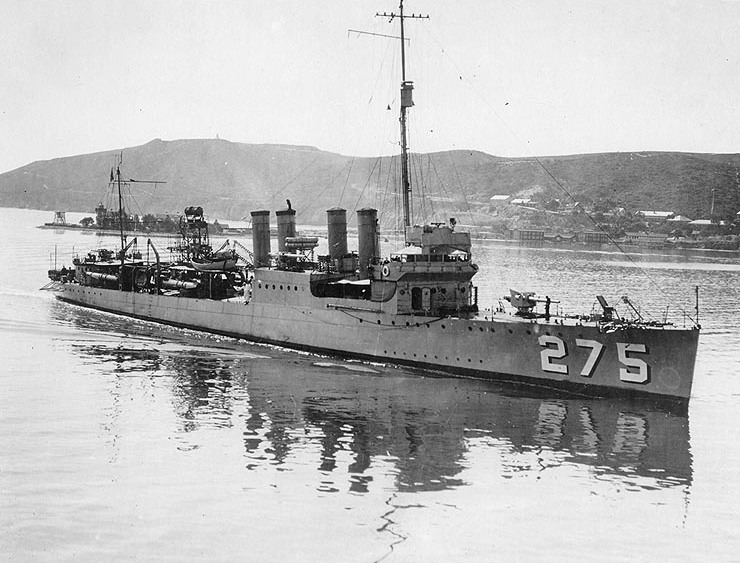 USS Sinclair (DD-275) entering San Diego harbor, California. Ballast Point is in the left background.